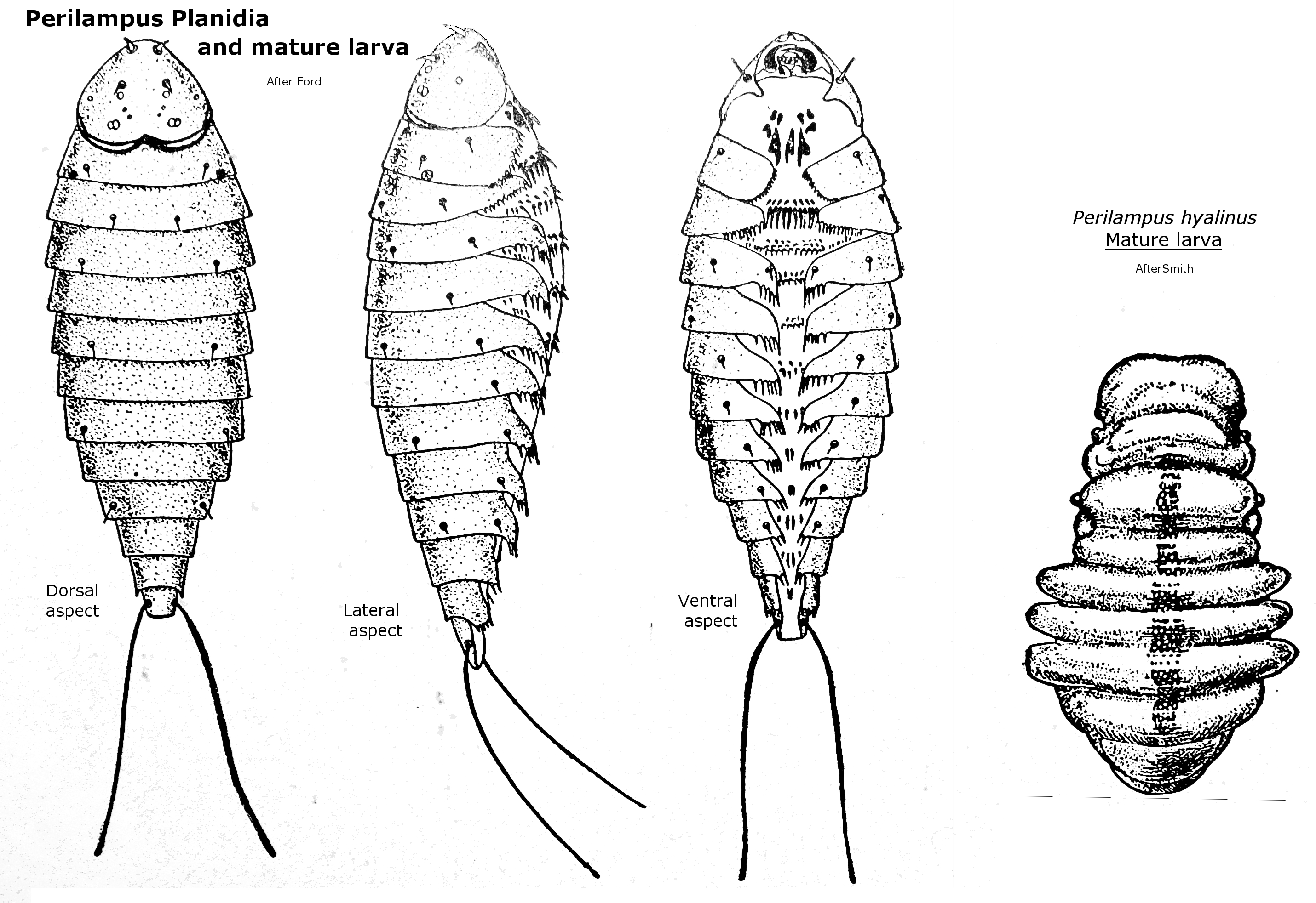 Picture scanned and edited from Comstock, He himself had got it from previous authors, Smith and Ford